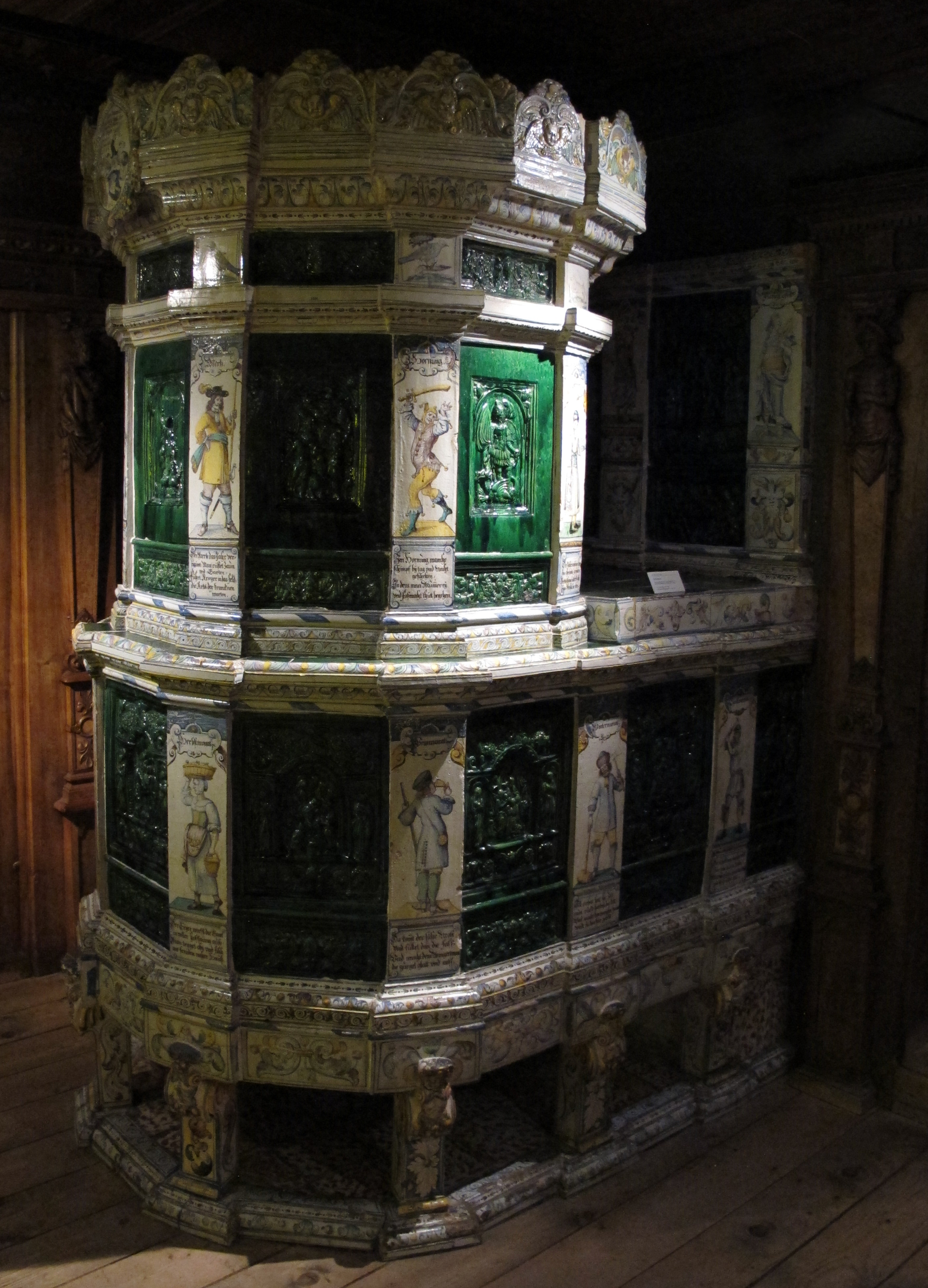 Bernese Collection of the Historisches Museum Bern